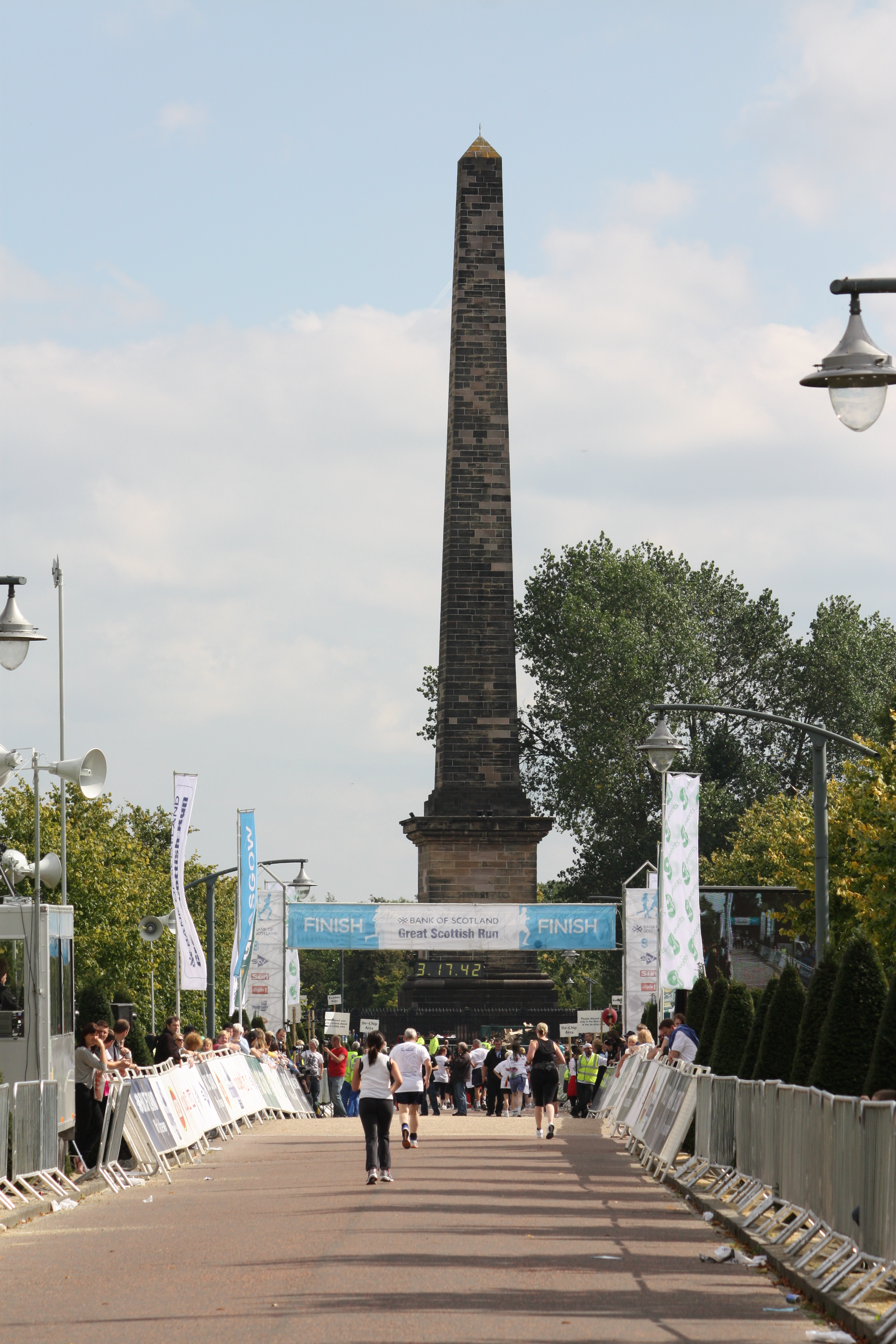 Finish line of the 2010 Great Scottish Run, in Glasgow Green, Glasgow, Scotland.